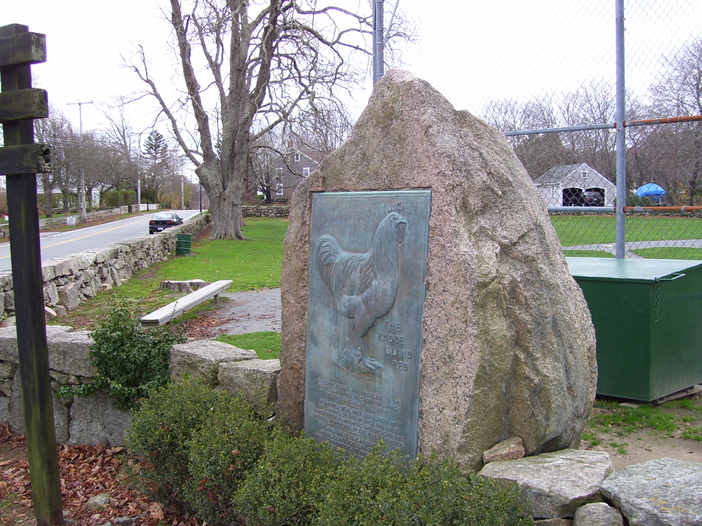 This is my 2008 photo of the Rhode Island Red Monument in Little Compton, Rhode Island.